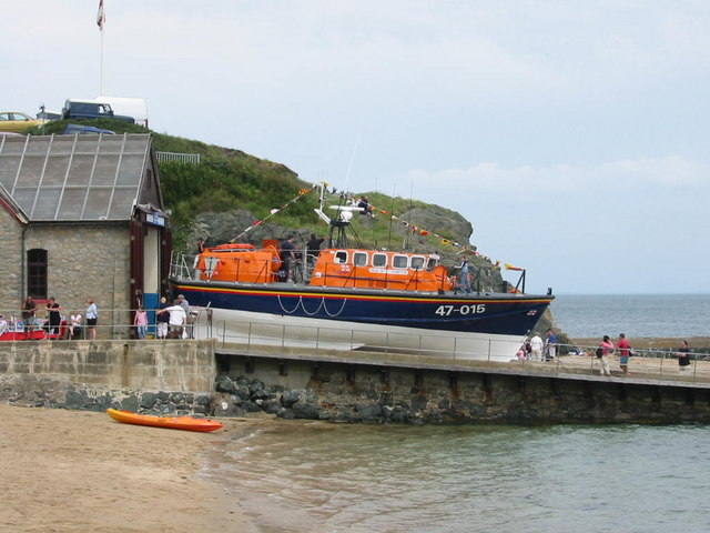 Porthdinllaen lifeboat The boat is on the slipway for an RNLI open day